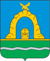 Bataisk (Rostov oblast), coat of arms (1990)